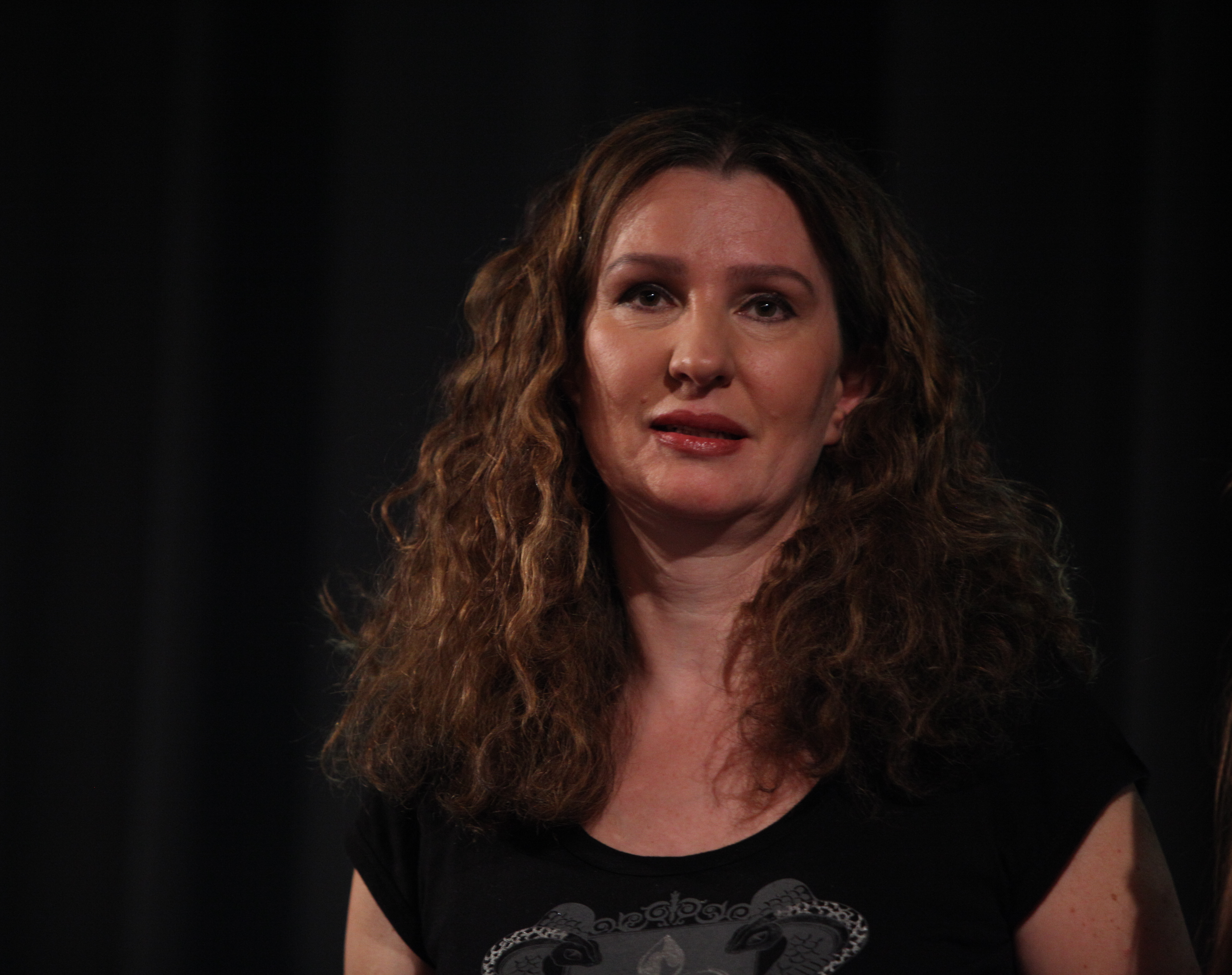 Czech director and producer Irena Pavlásková at 2010 Karlovy Vary International Film Festival